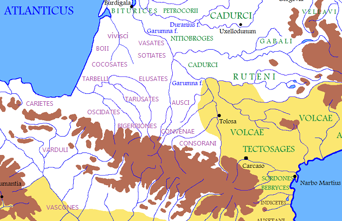 Pressumably aquitanian peoples of France and Spain (violet names)